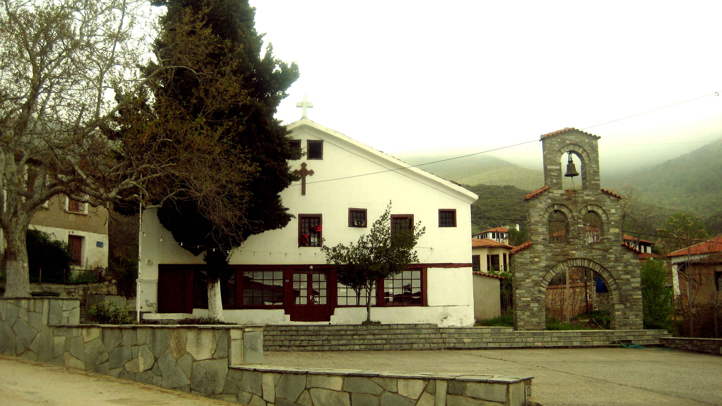 St. Ioan church in Maronia where Petko Voyvoda was receiving communion